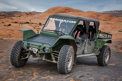 Prepare to explore the trails, speed through the desert, and climb the rocks all in the same ride.